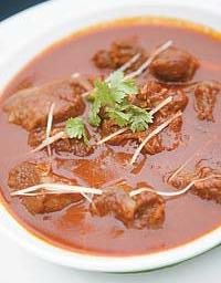 A Rajasthani Non-Vegetarian Meat Dish made from lamb/goat meat.